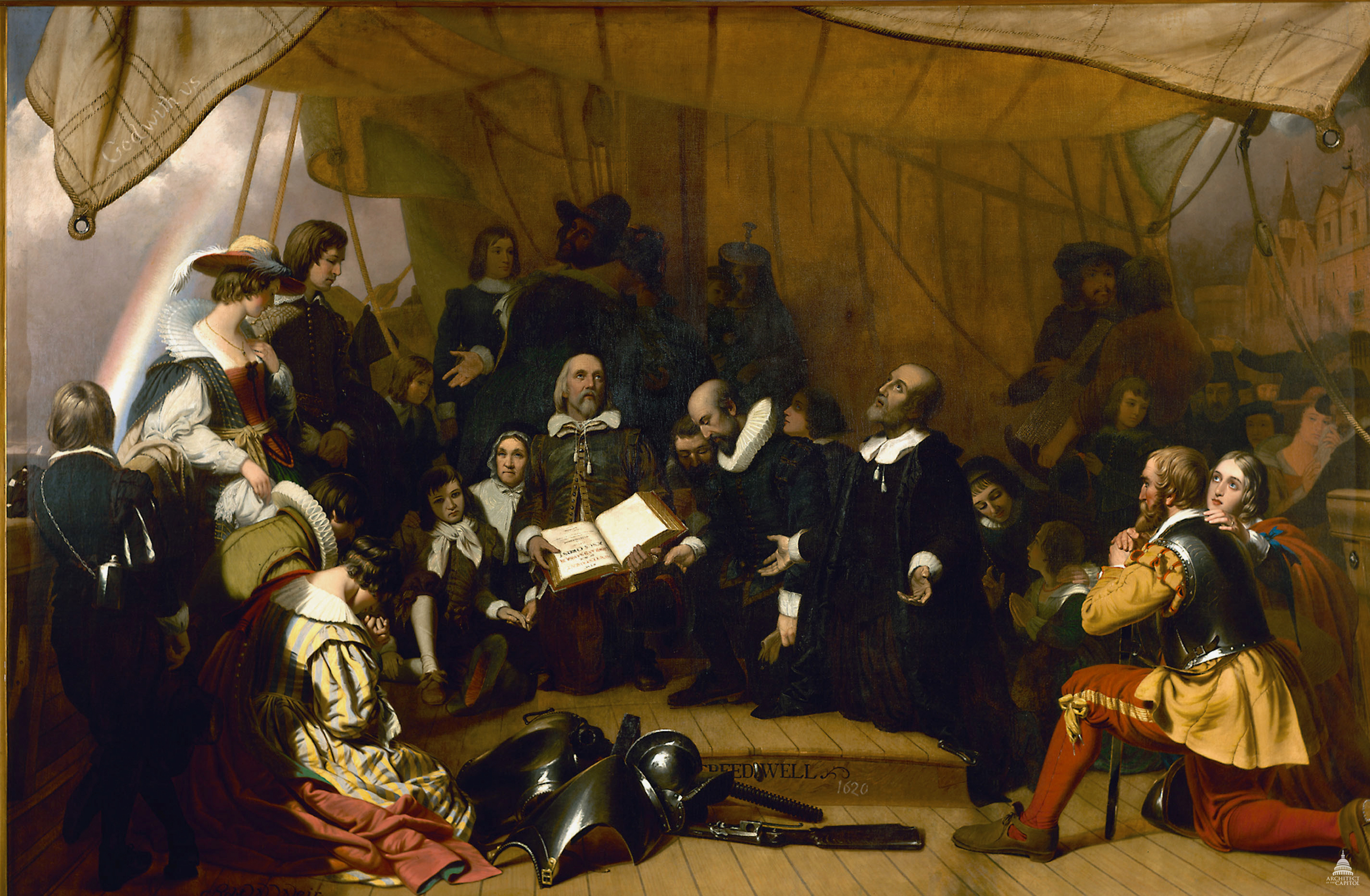 Robert W. Weir Oil on canvas, 12' x 18' 1843; placed 1843 Rotunda U.S. Capitol This painting depicts the Pilgrims on the deck of the ship Speedwell on July 22, 1620, before they departed from Delfs Haven, Holland, for North America, where they sought religious freedom. This official Architect of the Capitol photograph is being made available for educational, scholarly, news or personal purposes (not advertising or any other commercial use). When any of these images is used the photographic credit line should read “Architect of the Capitol.” These images may not be used in any way that would imply endorsement by the Architect of the Capitol or the United States Congress of a product, service or point of view. For more information visit